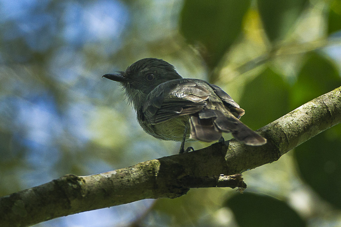 Grayish Mourner - Regua - Brazil_S4E1698